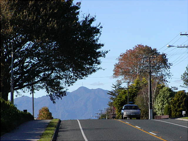 L Taylor